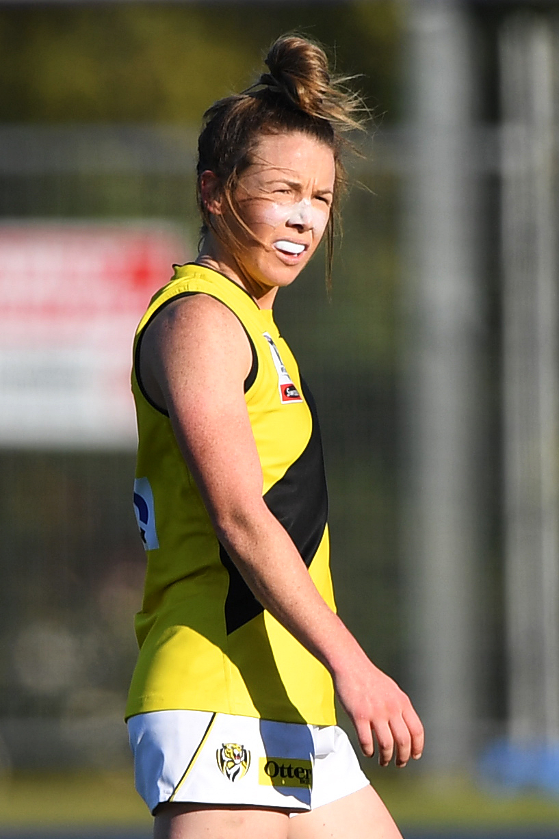 Jess Kennedy of Richmond during the 2019 VFLW Round 6 match between NT Thunder and Richmond at TIO Stadium on 15 June 2019 in Darwin, Australia.